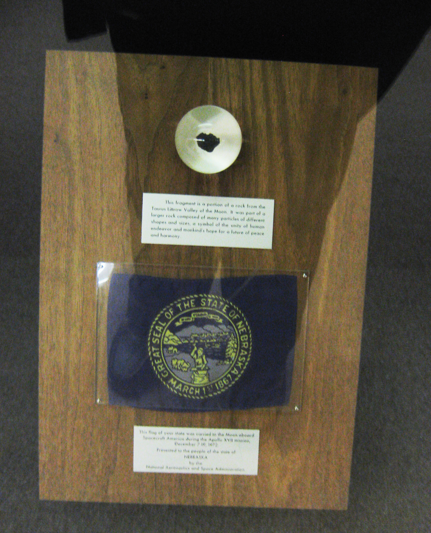 Nebraska Moon Rock Apollo 17 plaque